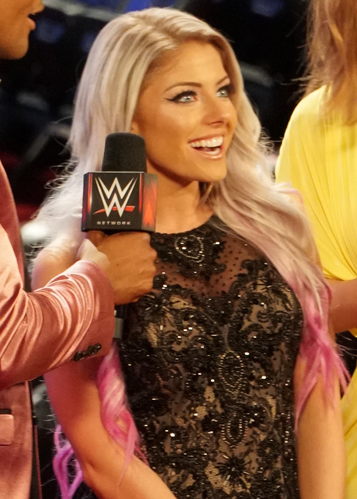 NOLA 2018 - WWE HOF 2018 WWE Hall of Fame (2018) was the event that featured the introduction of the 19th class to the WWE Hall of Fame. The event was produced by WWE on April 6, 2018 from the Smoothie King Center in New Orleans, Louisiana. The event took place the same weekend as WrestleMania 34. The event aired live on the WWE Network, and was hosted by Jerry Lawler. ( Deux semaines a Nola pour la ville et pour WWE Wrestlemania XXXIV Two weeks Nola for the city and for WWE Wrestlemania XXXIV )